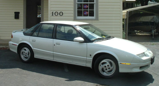 This is a Photo of my 1994 SL2 Homecoming edition.